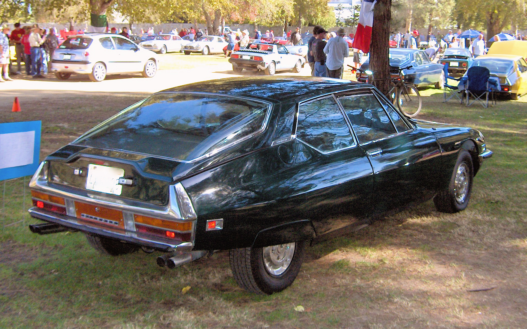 Own photo - public location